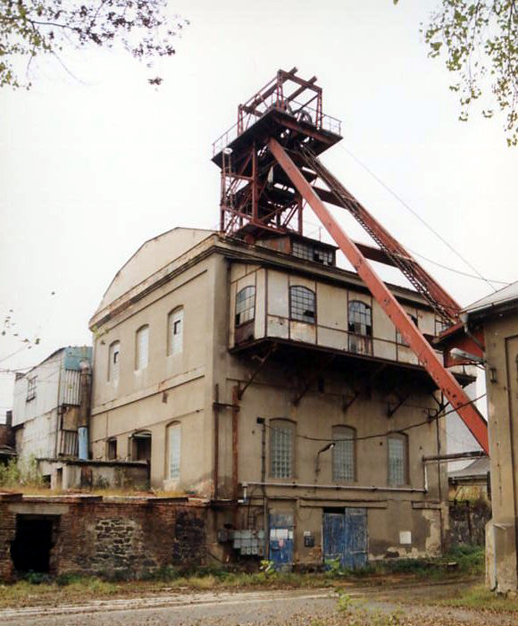 This image shows the former underground mine "Julius III." in Most, Czech Republic. The brown-coal-mine was in operation from 1882 to 1991. The extraction shaft is 186 m deep.